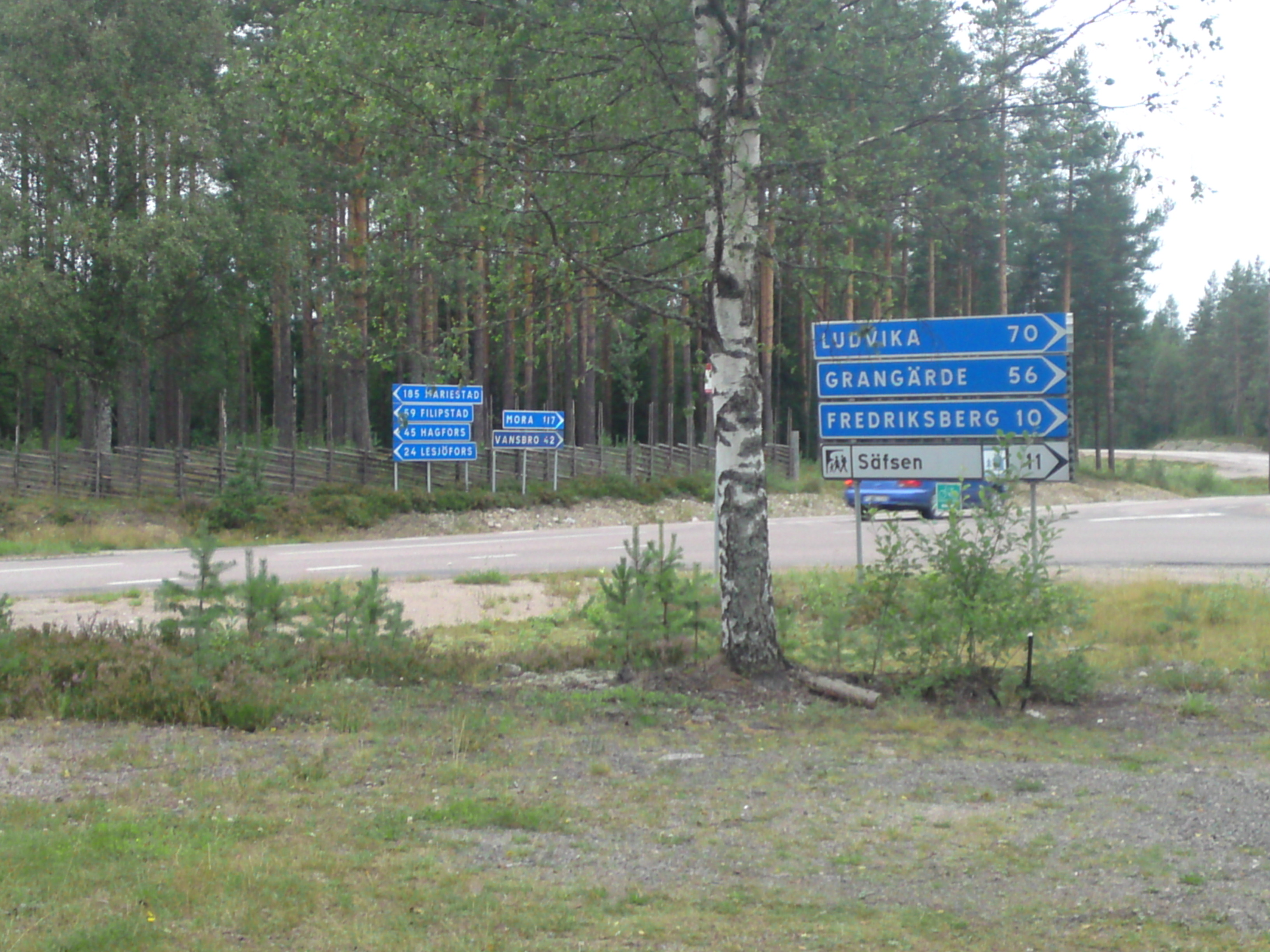 Interchange between swedish roads 26 and 245 just outside Tyfors, Dalarna, Sweden.